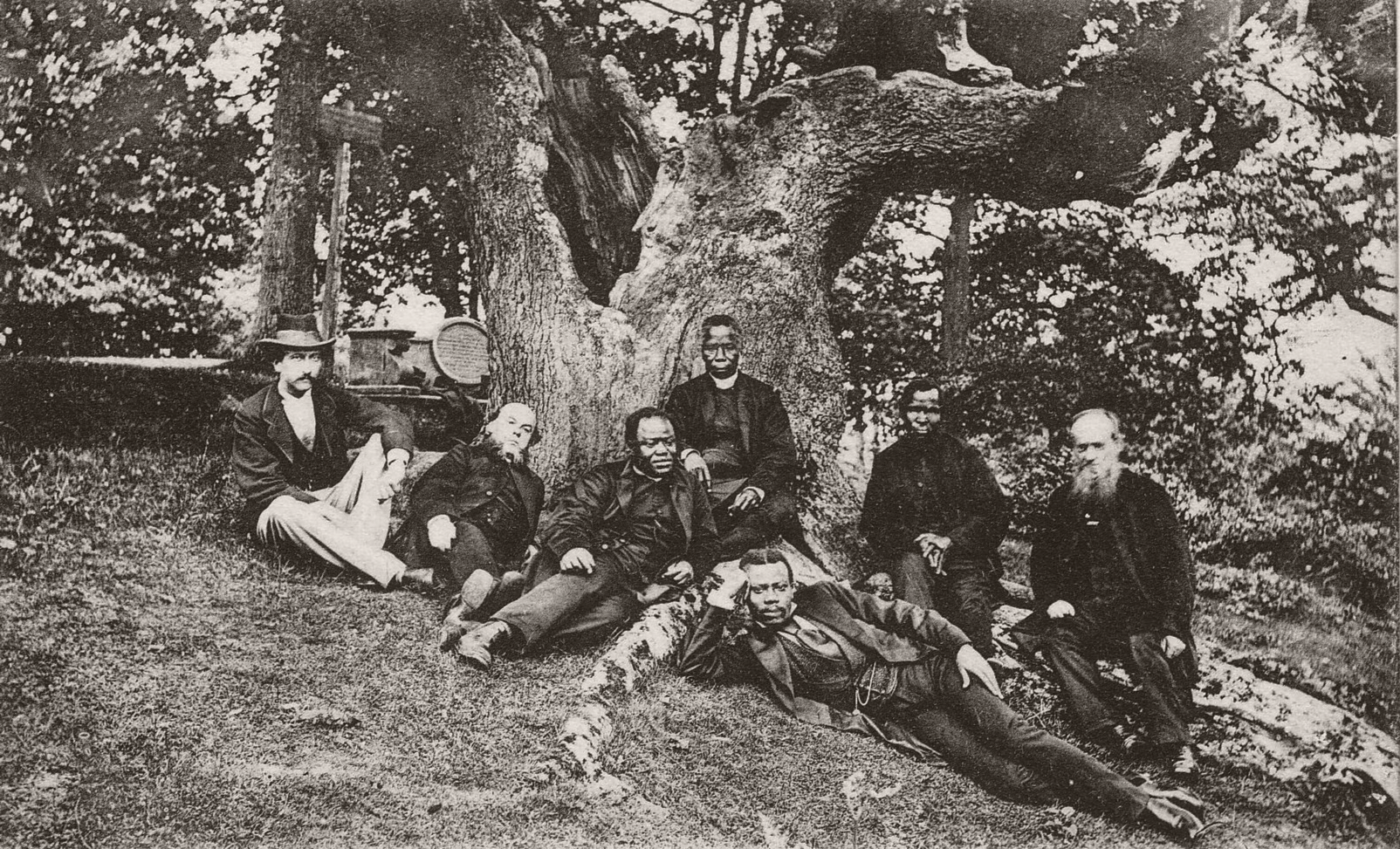 Anglican bishop Samuel Ajayi Crowther (center) with missionaries; legend of photo says: "Emancipation oak at Holwood Park, with group of missionaries."